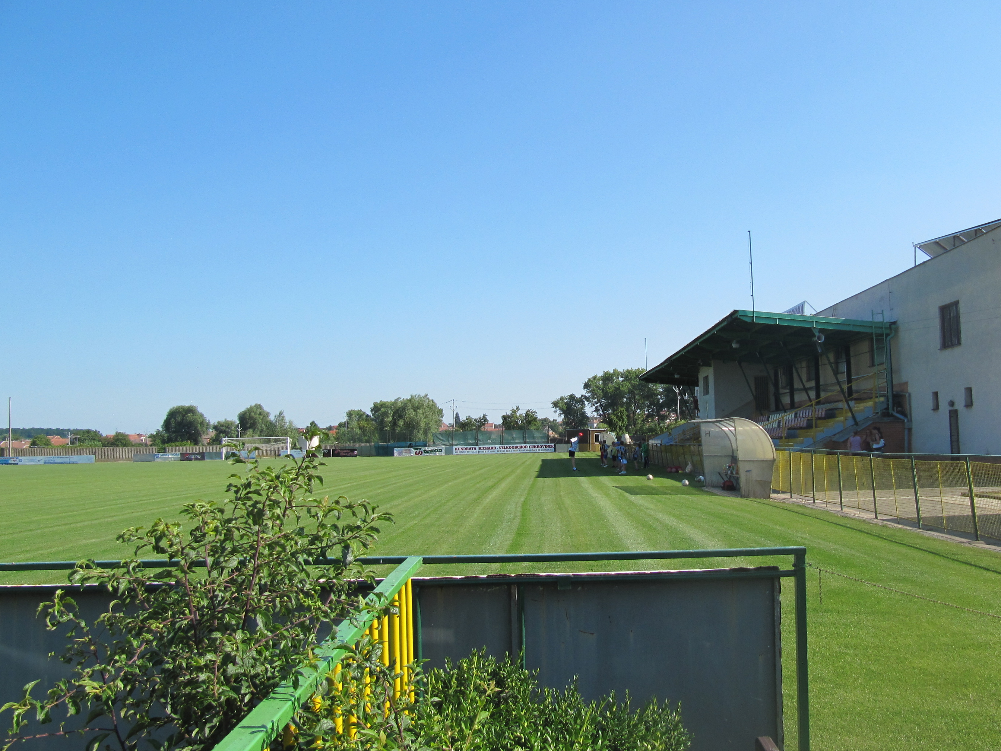 Mutěnice in Hodonín District, Czech Republic. Football stadium of FK Mutěnice.